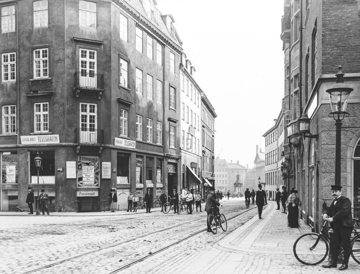 Nørregade seen from Gammeltorv in Copenhagen, Denmark